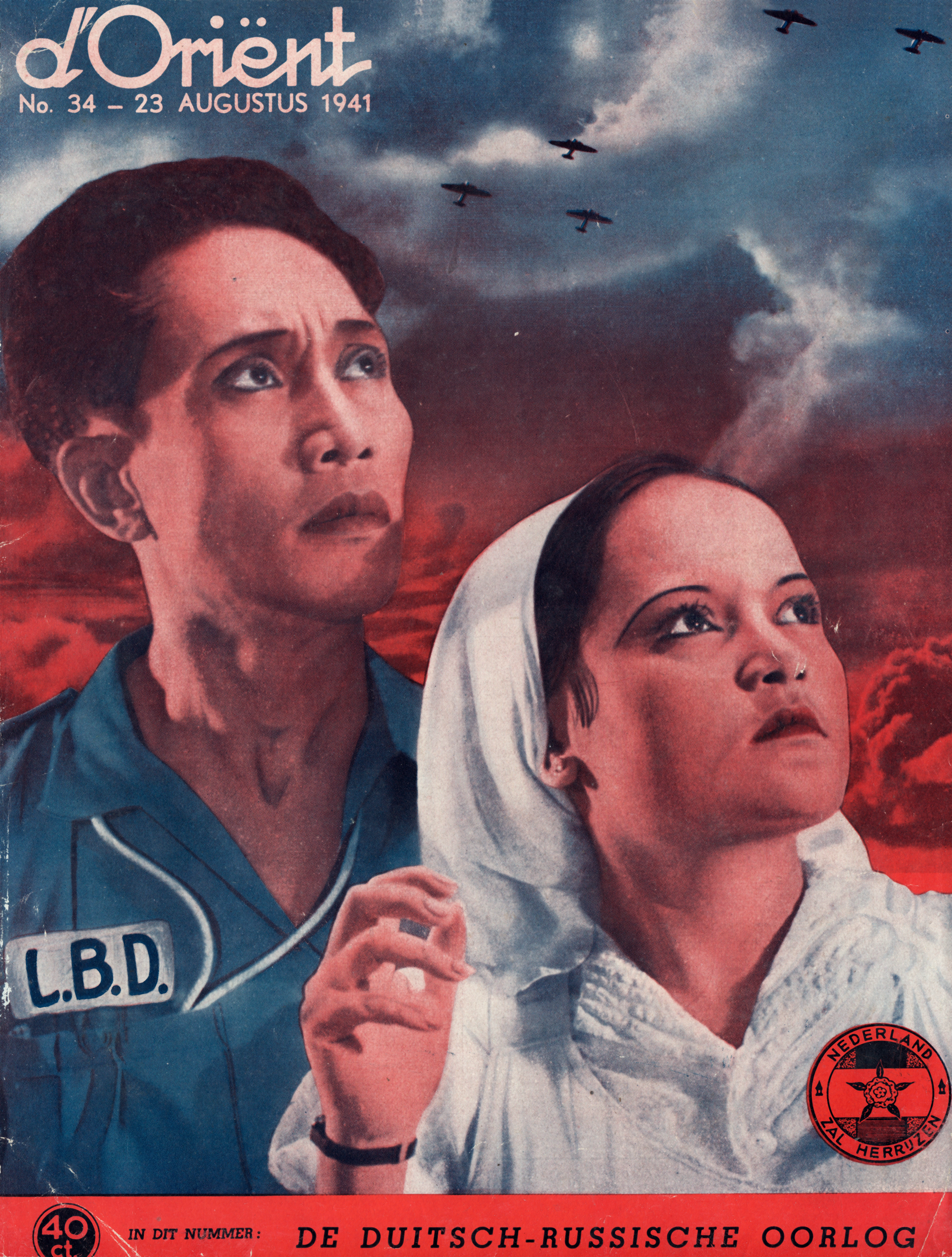 Astaman and Ratna Asmara in Kartinah, D'Orient 34 (23 August 1941)